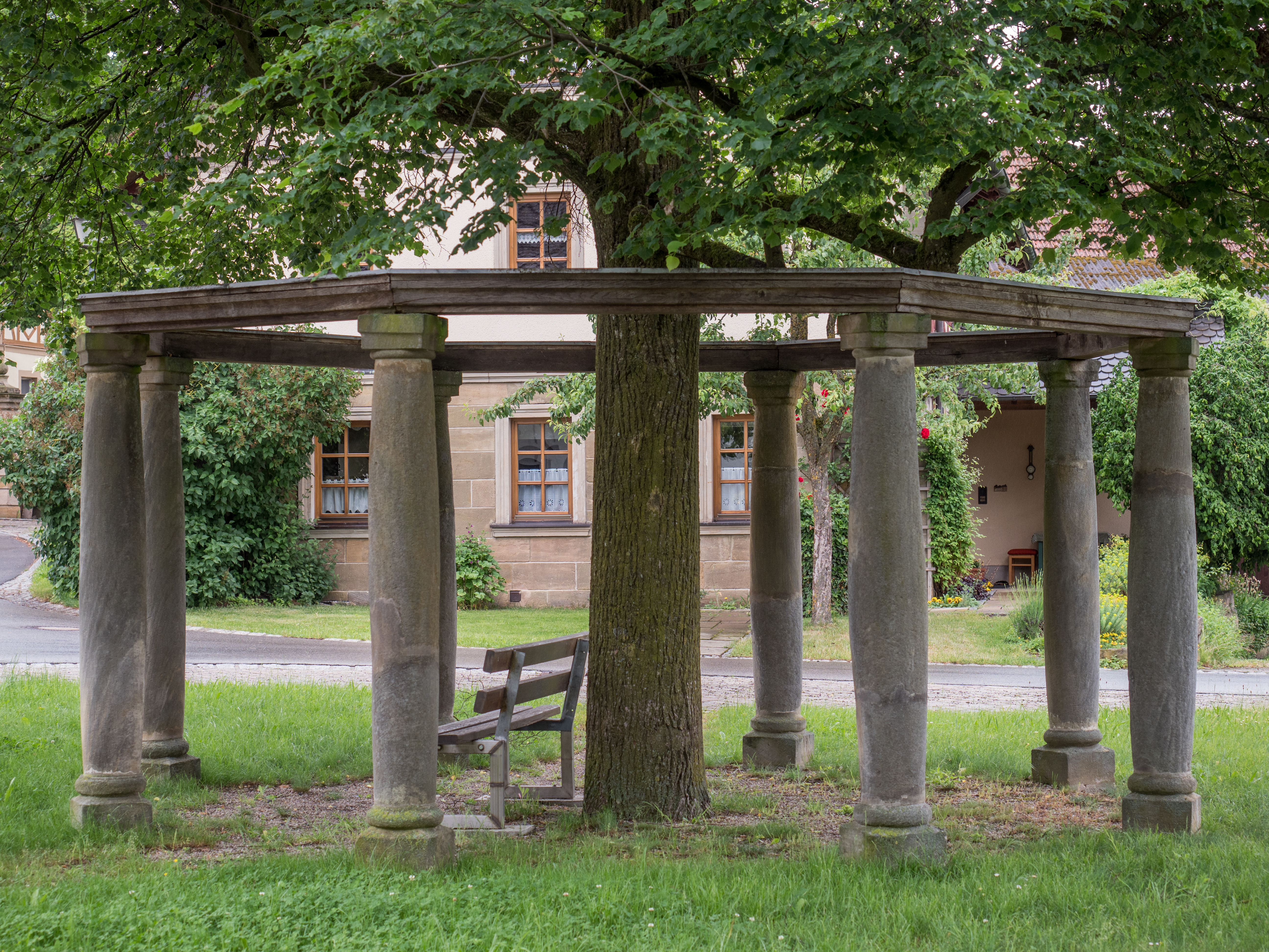 Village lime with eight supporting columns of sandstone in Salmsdorf